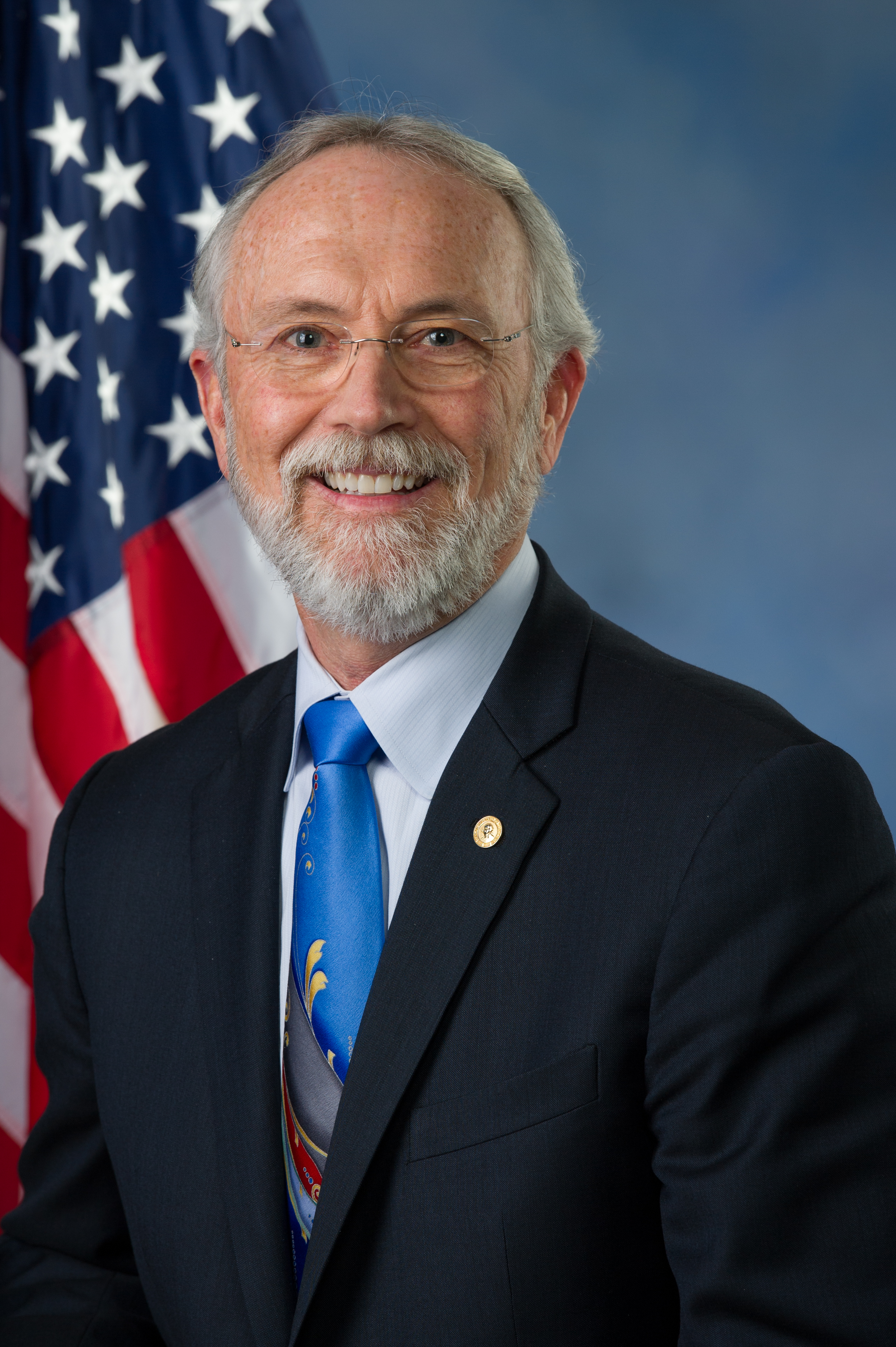 Dan Newhouse official House photo, 114th Congress